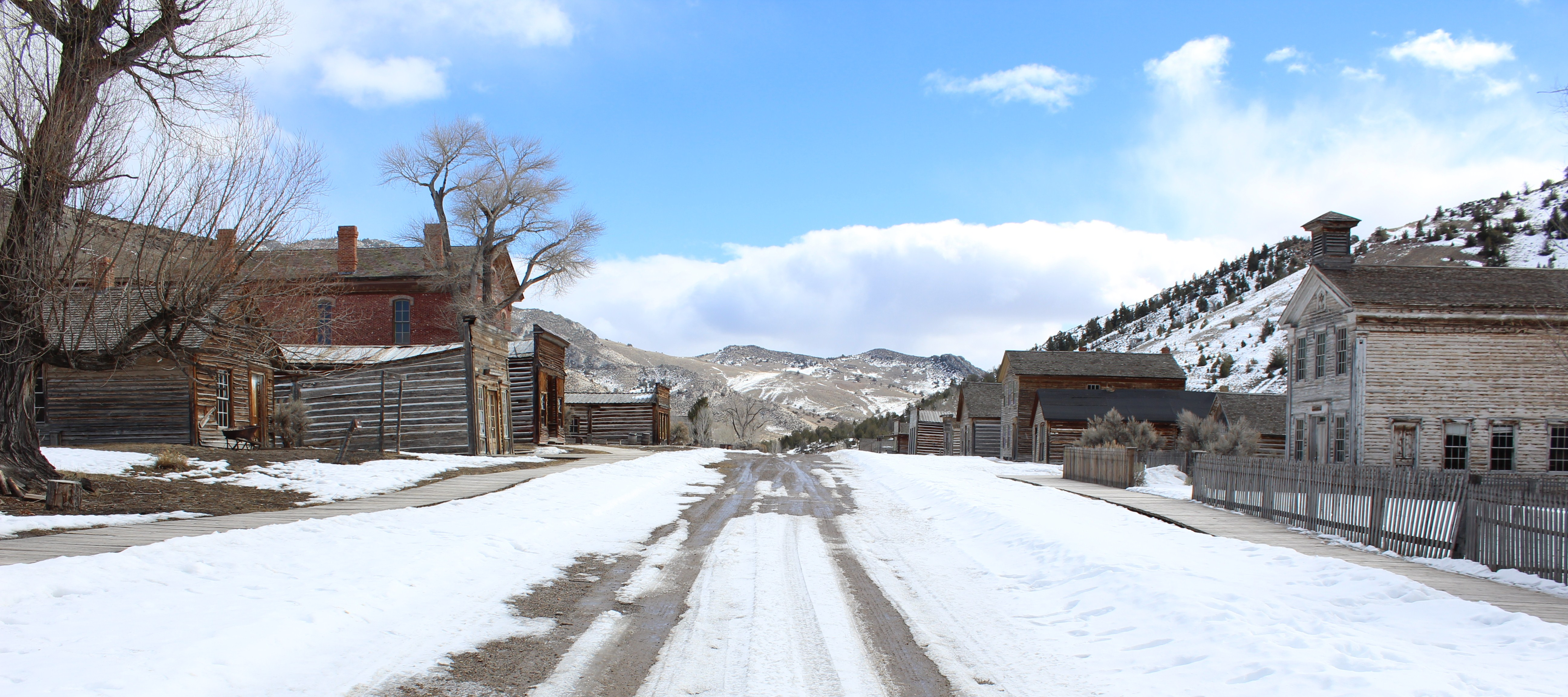 Bannack was founded in 1862 when John White discovered gold on Grasshopper Creek. As news of the gold strike spread many prospectors and businessmen rushed to Bannack hoping to strike it rich. In 1864, Bannack was named as the first Territorial Capital of Montana. Remaining in Bannack for only a short time, the Capital moved on to Virginia City. In 1863 gold had been discovered near Virginia City and at that time many prospectors left Bannack in hopes of finding the mother lode in Virginia City. However, some people stayed in Bannack and explored the use of further mining techniques. From the late 1860's to the 1930's, Bannack continued as a mining town with a fluctuating population. By the 1950's gold workings had dwindled and most folks had moved on. At that point the State of Montana declared Bannack a State Park. Today, over sixty structures remain standing, most of which can be explored. People from all over visit this renowned ghost town to discover their heritage.